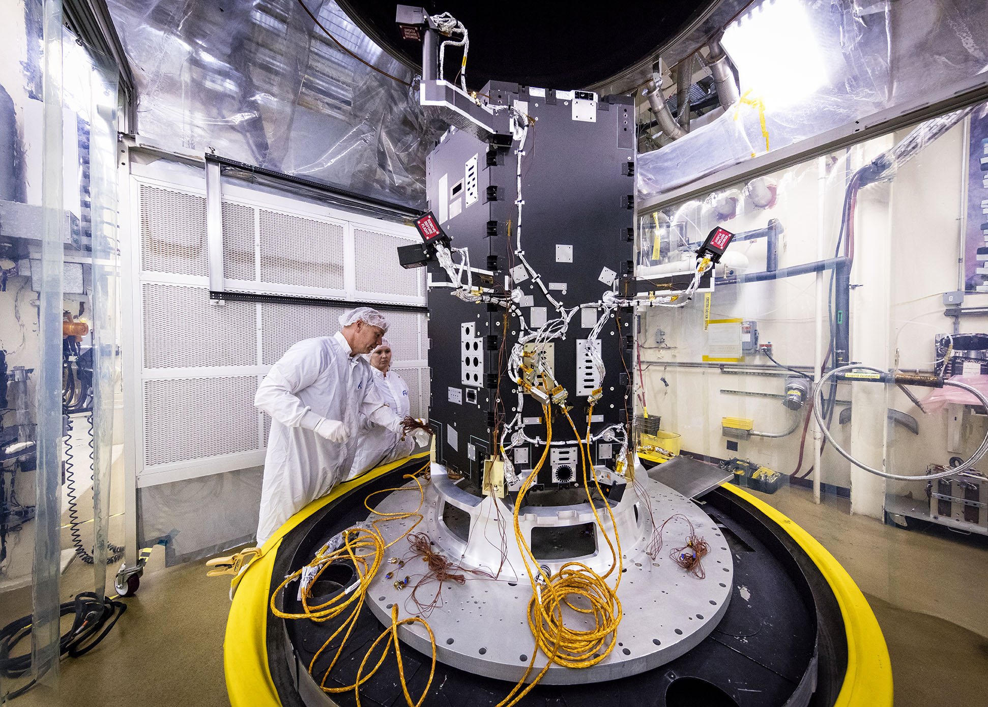 Engineers at the Johns Hopkins University Applied Physics Laboratory in Laurel, Maryland, prepare the developing Solar Probe Plus spacecraft for thermal vacuum tests that simulate conditions in space. Today the spacecraft includes the primary structure and its propulsion system; still to be installed over the next several months are critical systems such as power, communications and thermal protection, as well as science instruments.